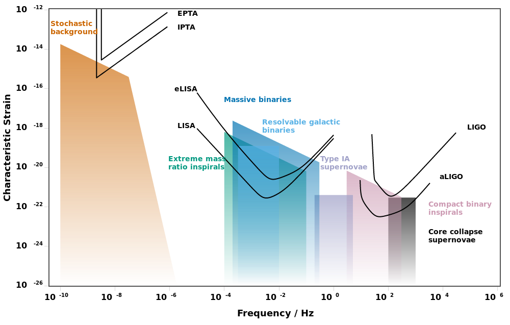 Figure showing the noise curves of various gravitational-wave detectors as a function of frequency together with the characteristic strain of a selection of astrophysical sources.